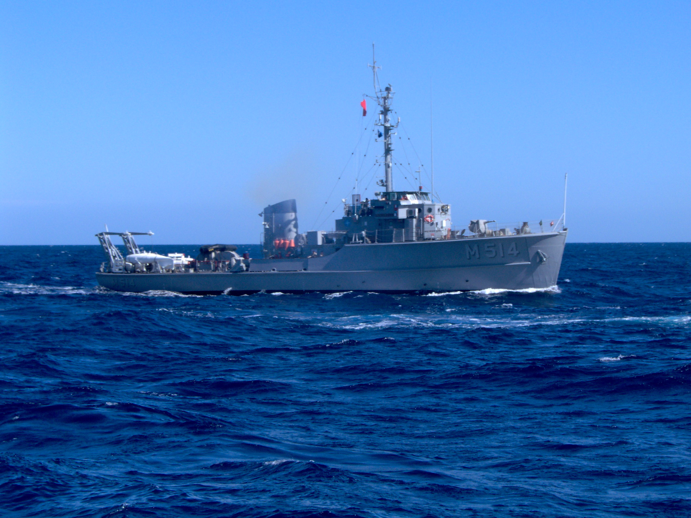 TCG Silifke (M-514), Malta waters, May 10, 2006. Note: Ex-MSC-304 coastal minesweeper.